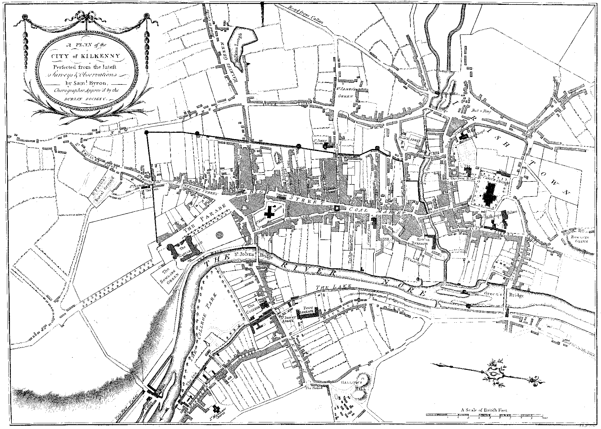 A map of Kilkenny city dated around 1780 by Sam Byron. This is a much smaller copy of a bigger version on Wikkicommons-(see other versions below). The bigger one is much better quality and if you want to print a copy use the bigger version. Be warned though it is big. Printed at 300dpi its about 97 X 70 cm!